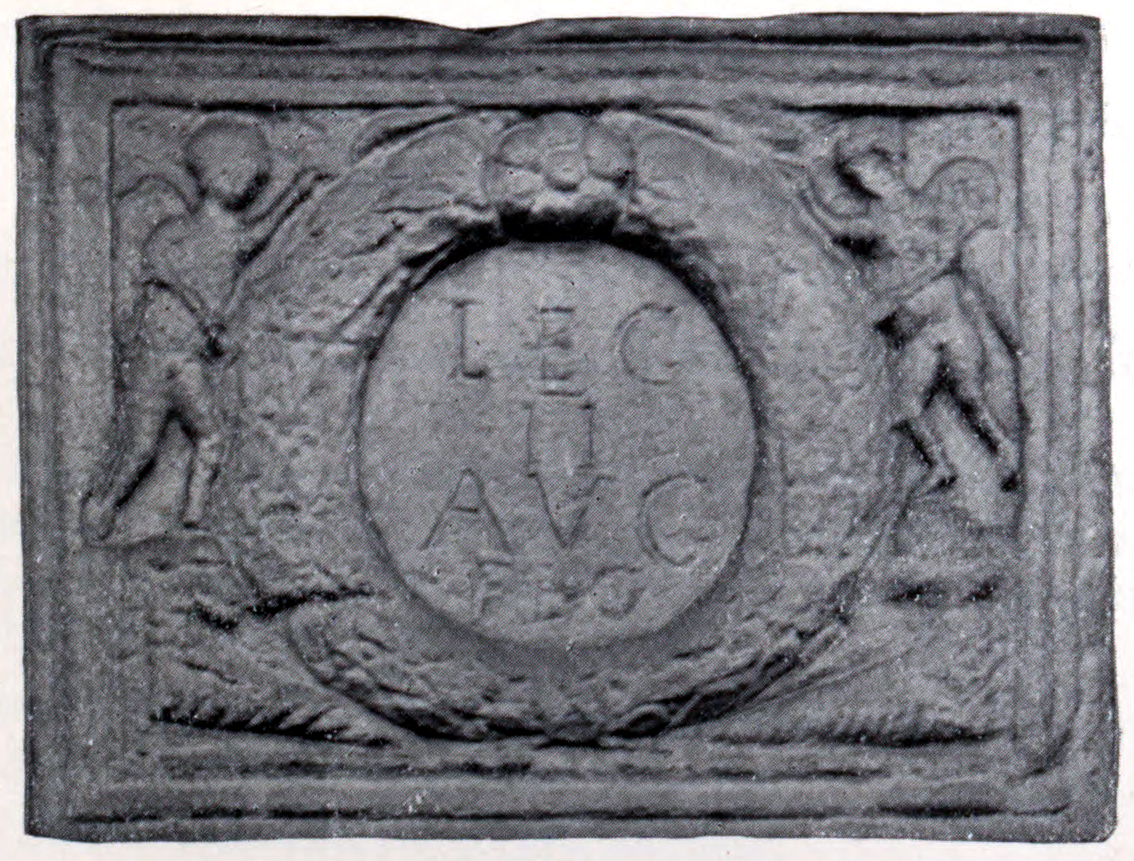 RIB 2209. Inscription Cadder